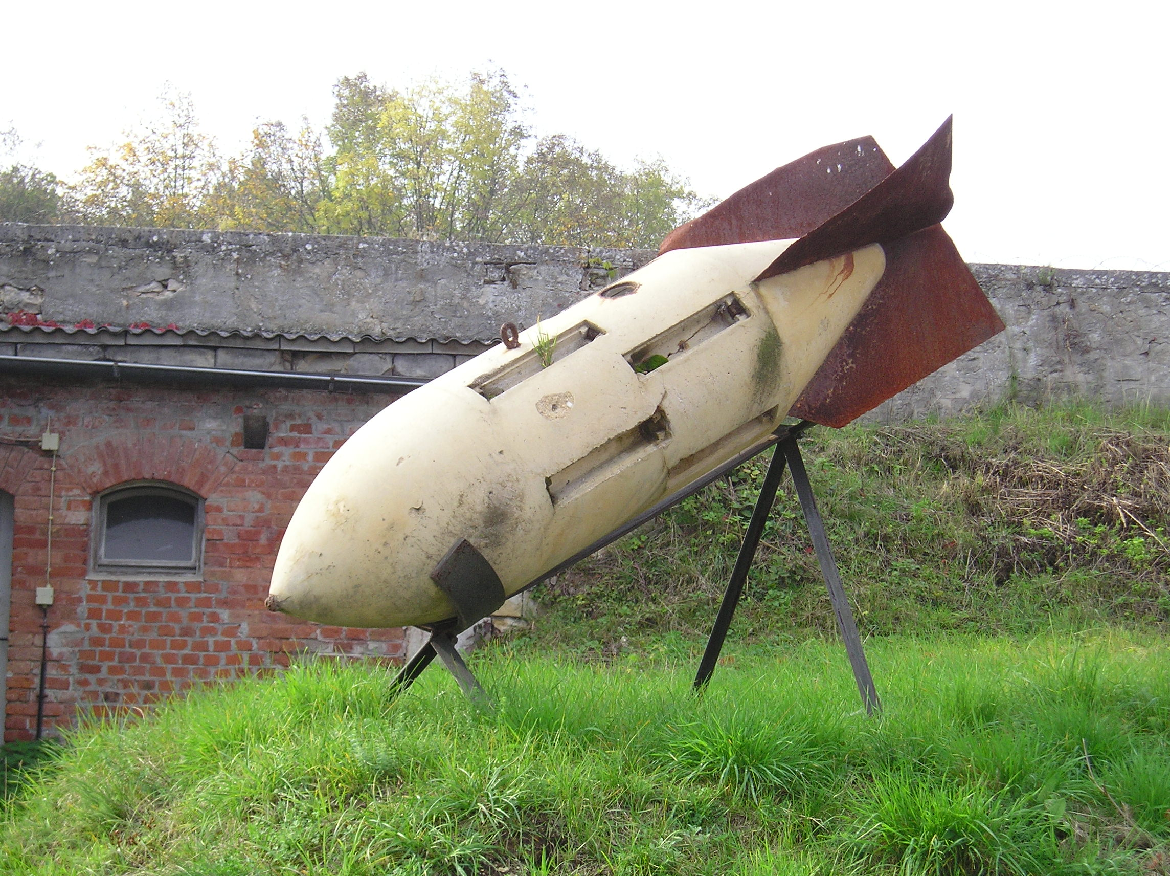 German concrete bomb from World War II